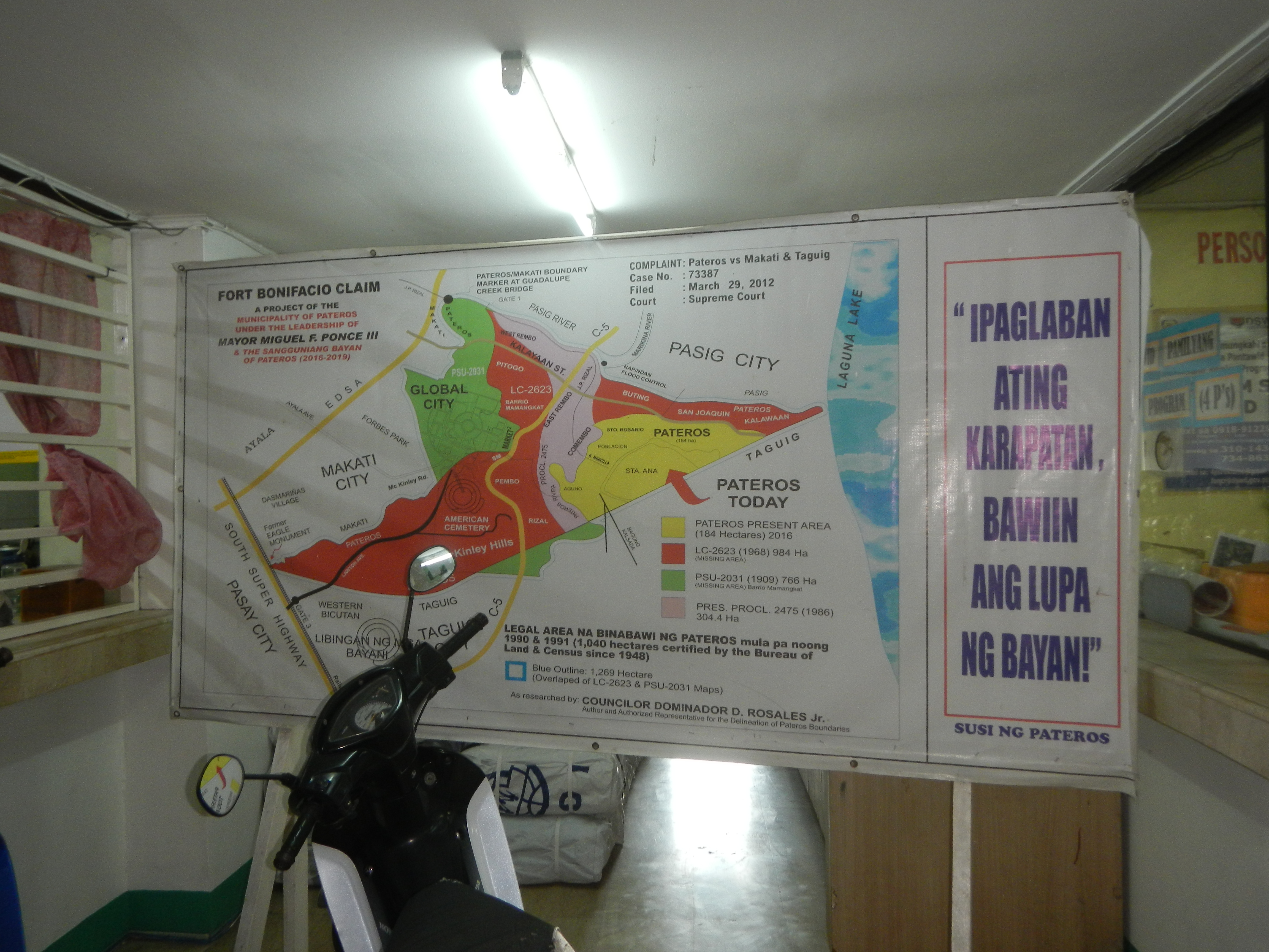 San Pedro, Pateros, Metro Manila Mayors of Pateros Fort Bonifacio Claim - Legal area na binabawi ng Pateros (Pateros vs. Makati and Taguig, Case No. 73387, March 29, 2012) Pateros Municipal Hall Complex - Interior and Exterior ; Base, population density and vicinity maps of Pateros, Metro, Manila; Freedom Fighters of Pateros (World War II) Memorial List of barangays of Metro Manila, Legislative district of Pateros–Taguig Barangays Aguho 14°32'35"N 121°3'50"E Poblacion Poblacion 14°32'40"N 121°4'0"E San Roque 14°32'34"N 121°4'11"E Martirez del 96 14°32'23"N 121°3'58"E Santa Ana 14°32'40"N 121°4'22"E Magtanggol 14°32'52"N 121°4'16"E Santo Rosario Silangan 14°32'58"N 121°4'25"E Santo Rosario Kanluran 14°33'9"N 121°4'9"E Tabacalera 14°32'58"N 121°4'4"E Pateros National High School (San Pedro) 14°32'50"N 121°3'58"E Pateros, Metro Manila Metro Manila Pateros Bridge 14°32'45"N 121°3'54"E B. Morcilla Street 14°32'41"N 121°4'1"E (Note: Judge Florentino Floro, the owner, to repeat, Donor Florentino Floro of all these photos Judge Floro hereby donate gratuitously, freely and unconditionally all these photos to and for Wikimedia Commons, exclusively, for public use of the public domain, and again without any condition whatsoever).